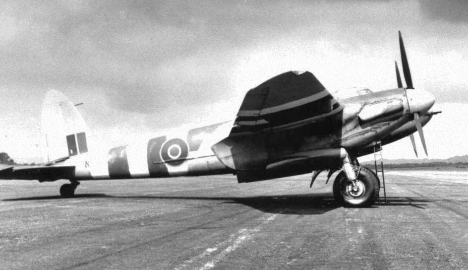 de Havilland Mosquito FB.VI NS898 'SY-Z' of 613 City of Manchester Squadron at RAF Lasham.